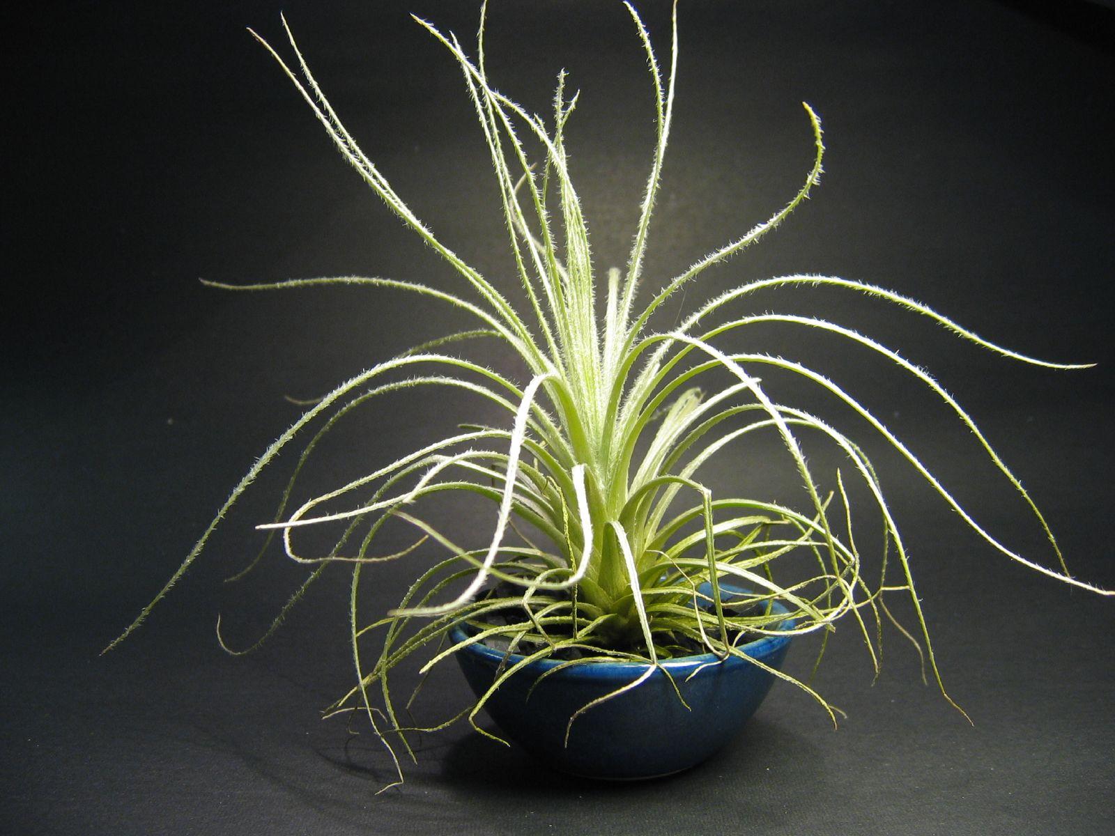 Tillandsia tectorum